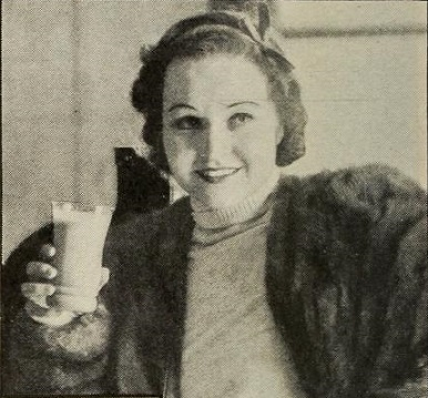 Marian Shockley